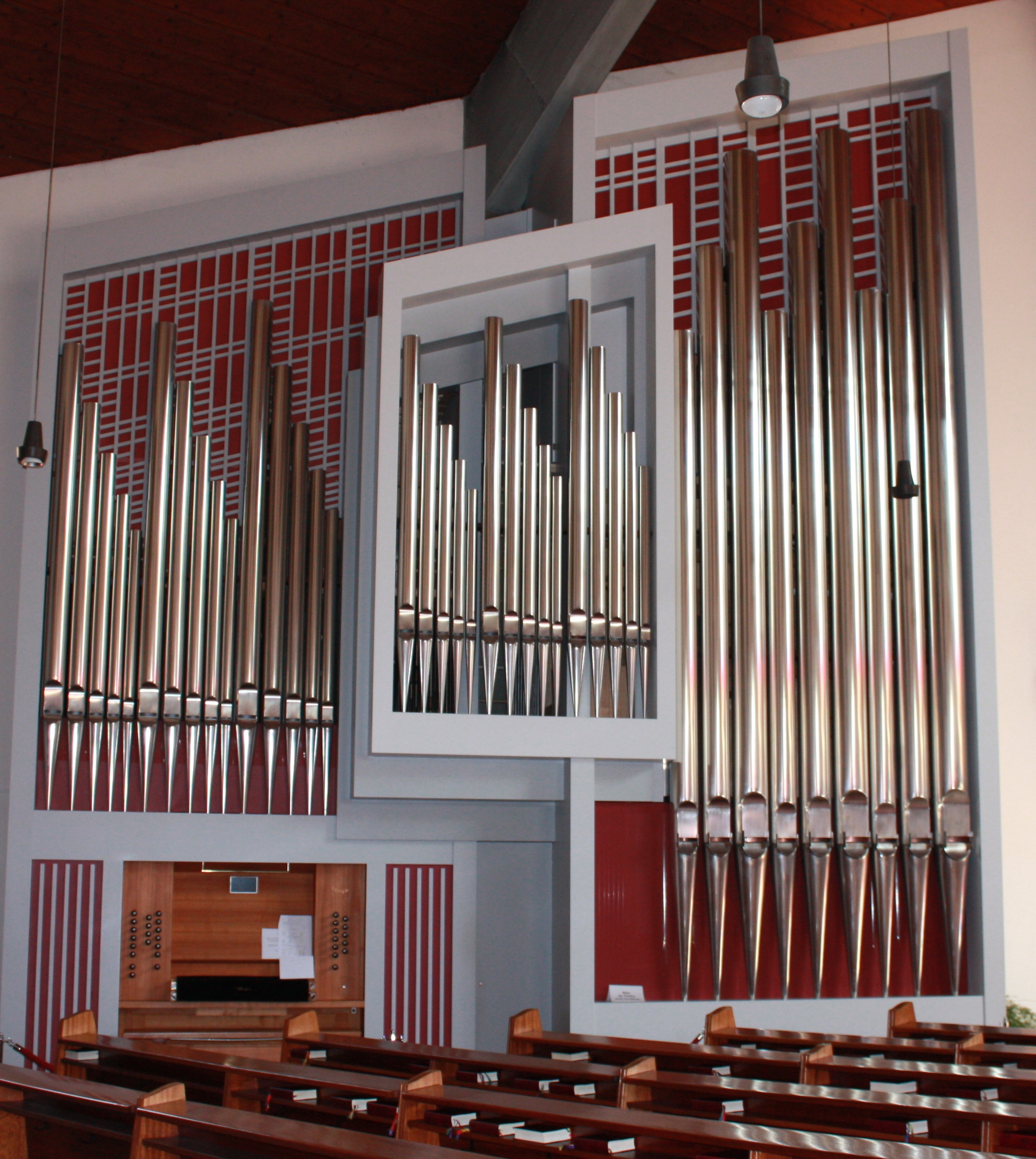 Parish church - new organ Locality: Spital an der Drau Community:Spittal an der Drau